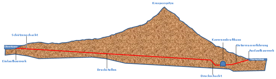 Water-management Obervermuntwerk II, Partenen, Vorarlberg, Austria.